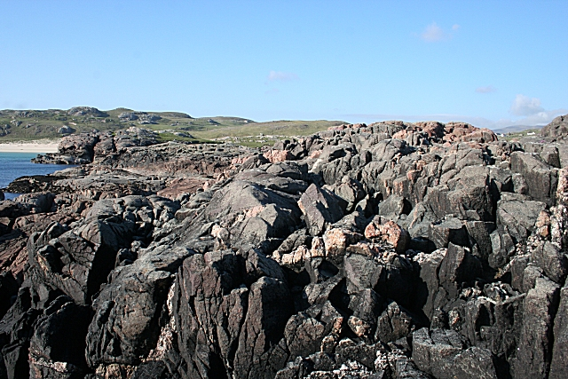 Lewisian Gneiss The dark gneiss is cut by several pink granitic veins. In the left background is a glimpse of Am Meallan, the beach at Oldshoremore.